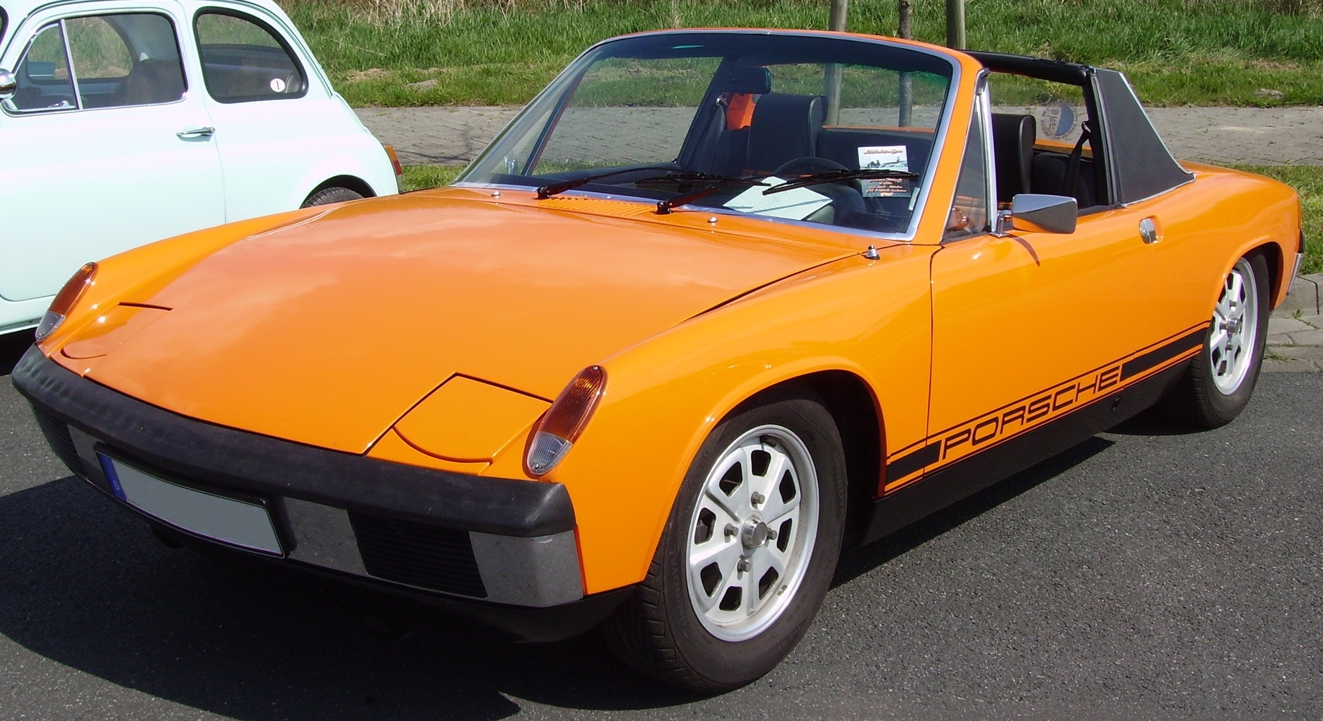 A Porsche 914